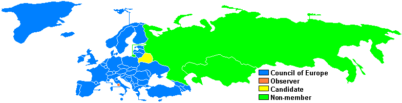 Council of Europe members